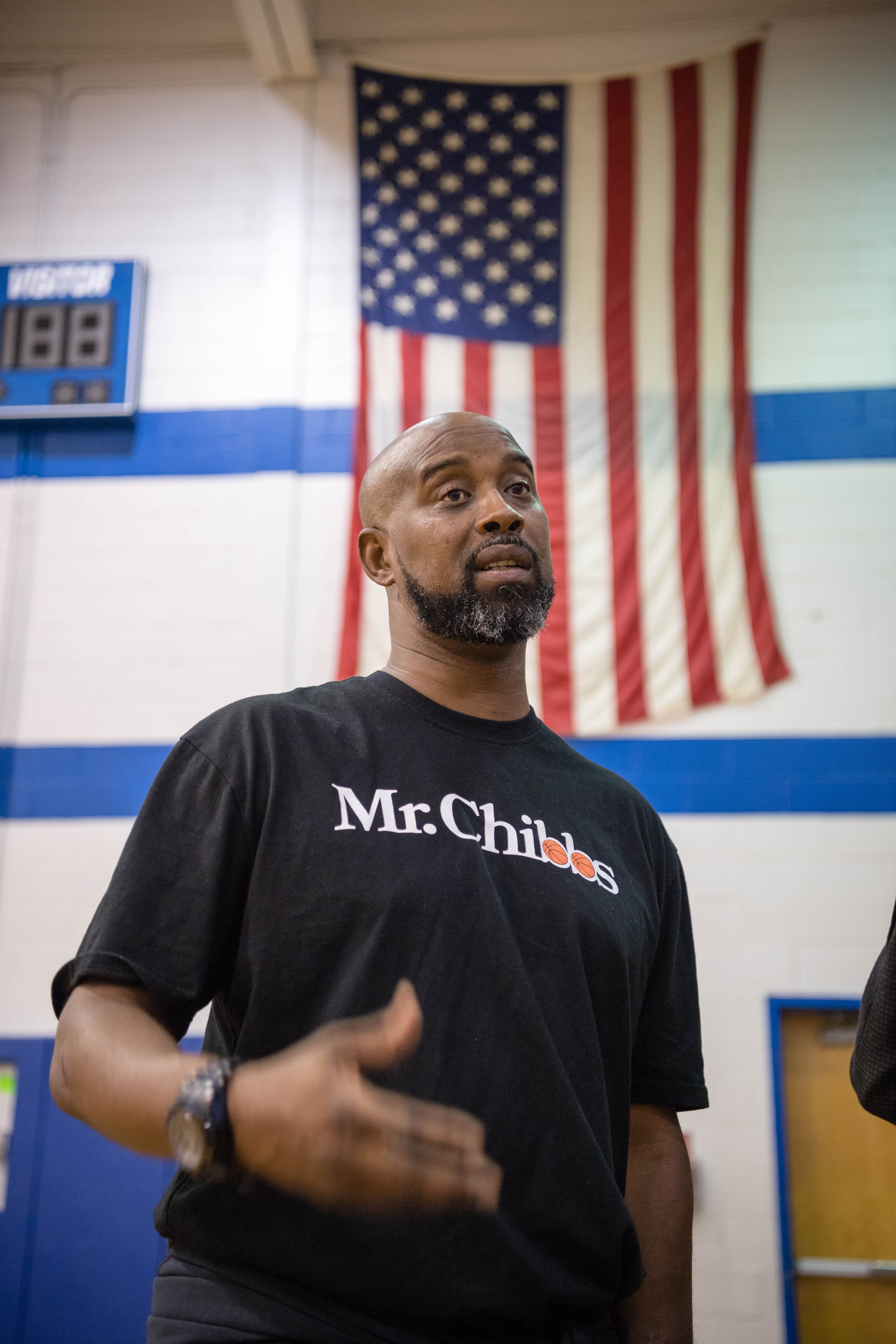 Kenny Anderson, Montclair Film Festival 2017